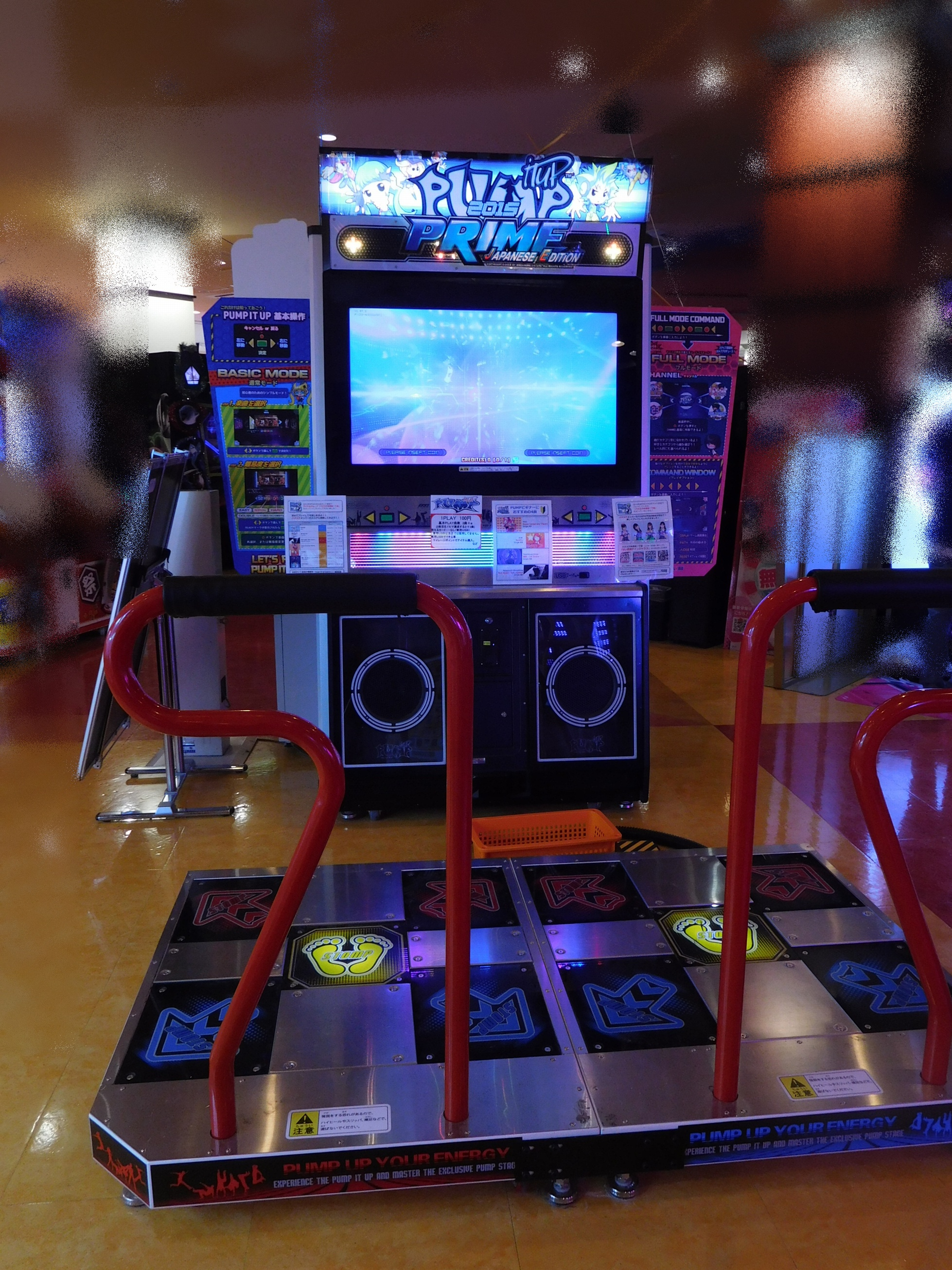 Pump It Up PRIME Japanese Edition